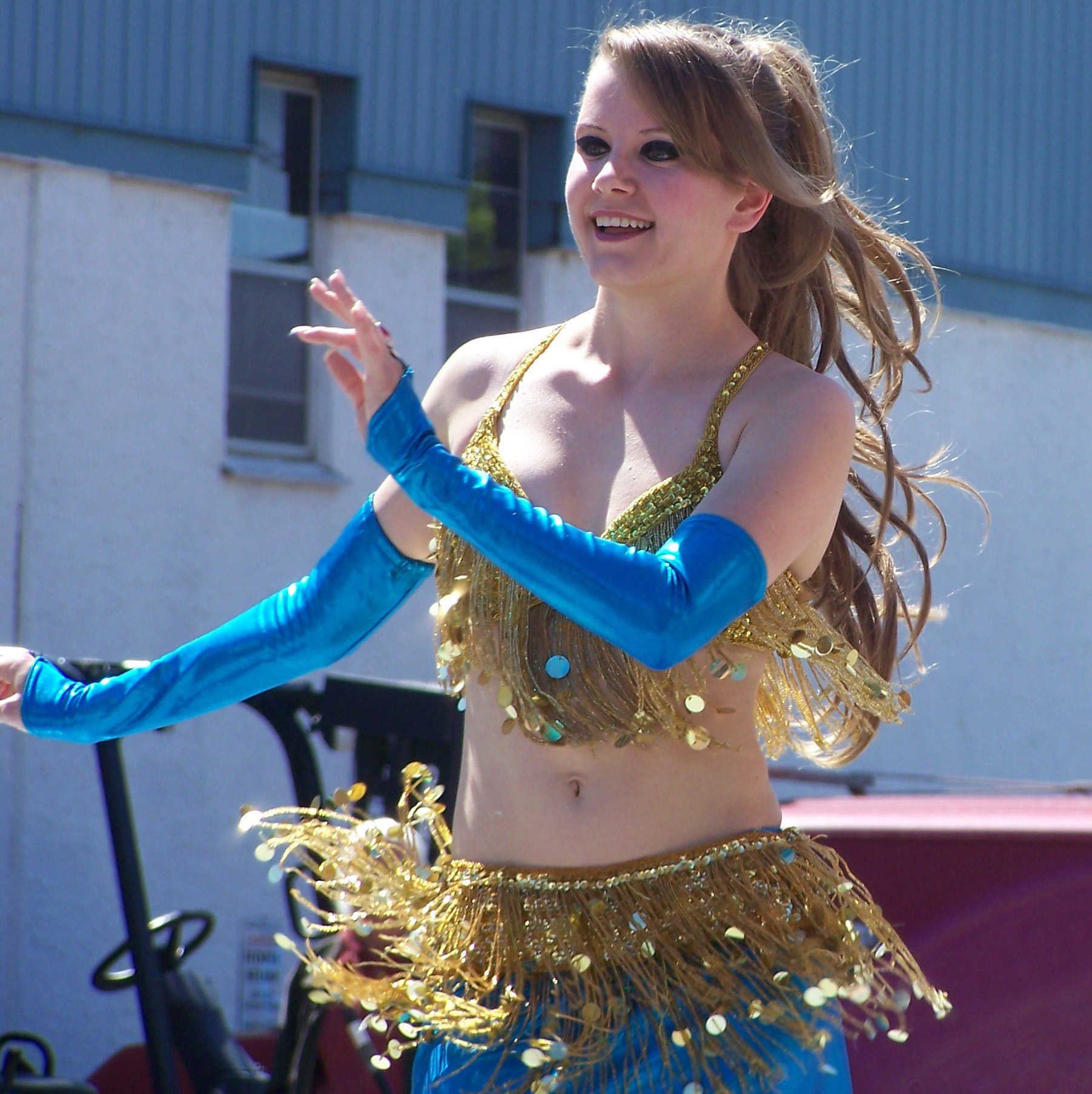 A belly dancer at the 2008 Sun and Salsa Festival in Calgary, Alberta, Canada.